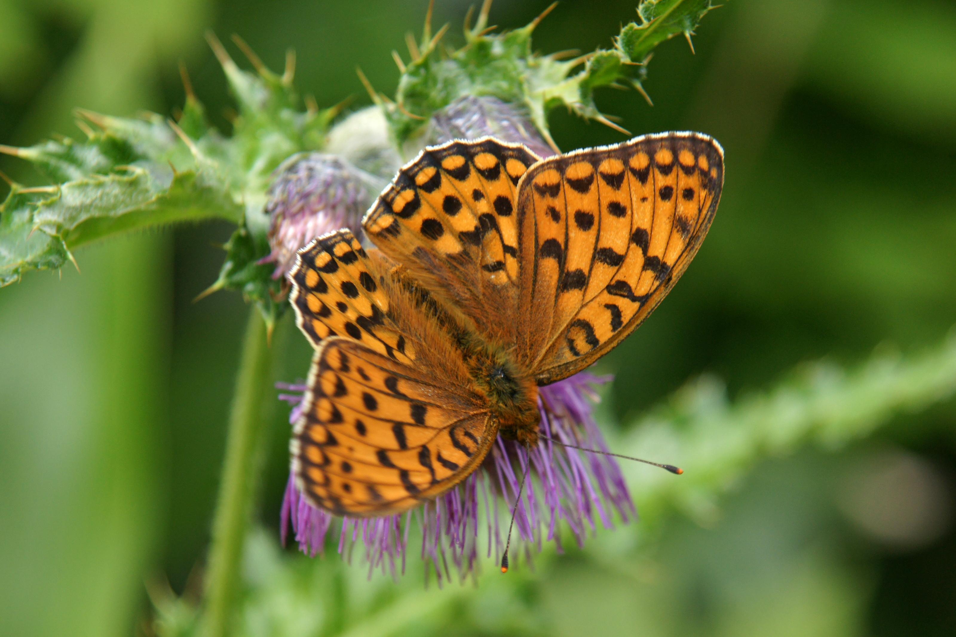 Speyeria aglaja fortuna (Janson, 1877) at Higashidateyama Kozan-shokubutuen of Shiga Kogen, Yamanouchi, Nagano prefecture, Japan